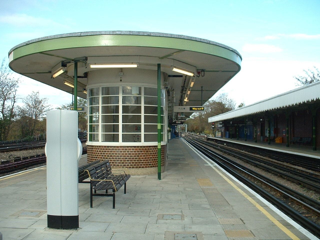 Hainault tube station looking north ('eastbound') along platforms 2 (on right) and 3, with 1930s "Holden" style platform shelter.